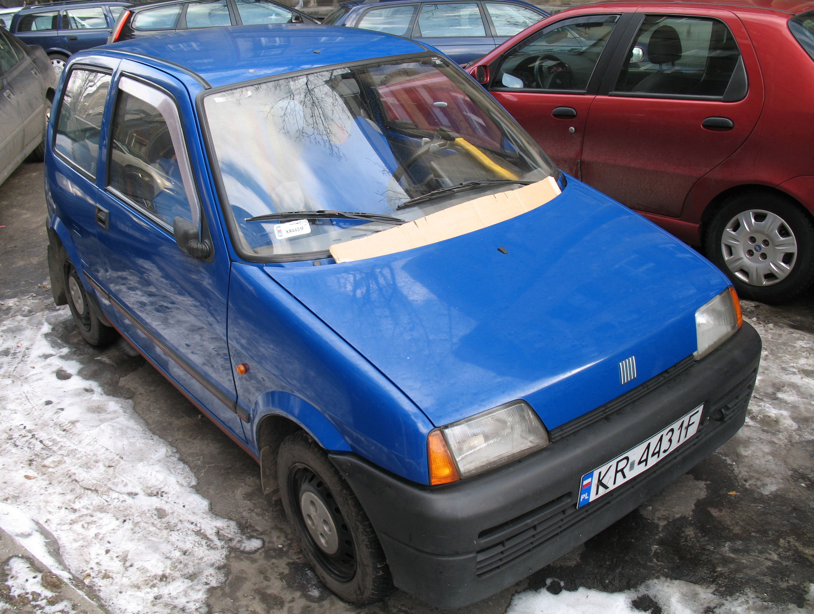 Blue Fiat Cinquecento Happy in Kraków, Poland.